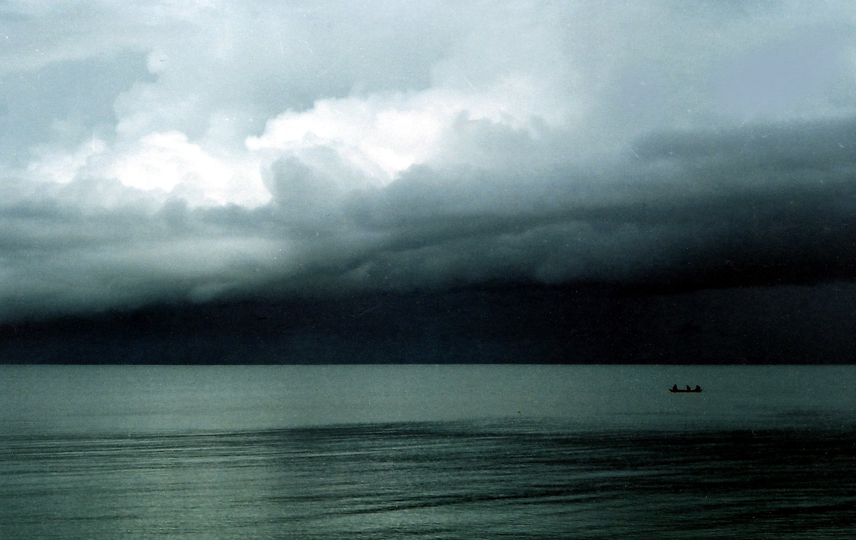 Three fishermen under dark storm clouds at Bo-Put, Thailand.